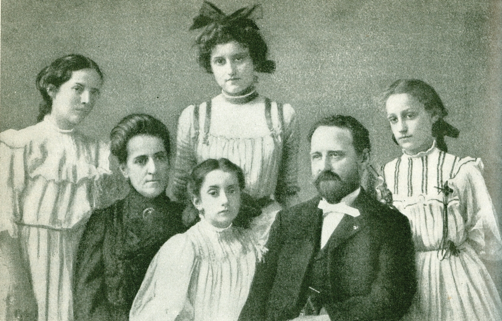 George Cooper Pardee (1857-1941), of Oakland, California, and his family. Mayor of Oakland, 1893-95; Governor of California, 1903-07. Image from American Monthly Review of Reviews, December 1902.